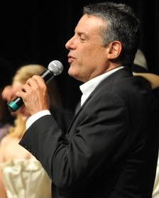 Filmmaker Fábio Barreto during the premiere of his film Lula, o Filho do Brasil at the Brasília Film Festival in November 17, 2009.